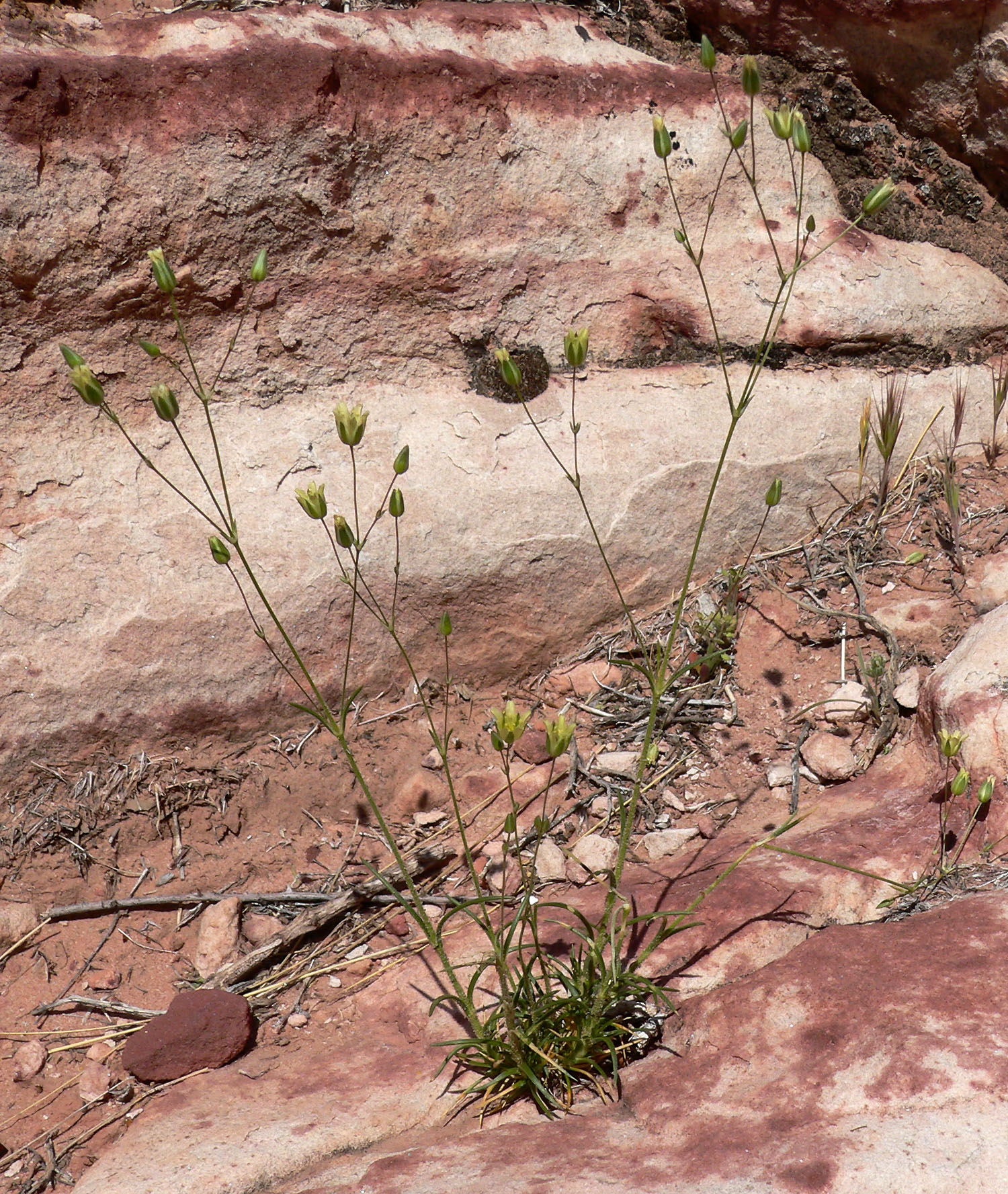 Eremogone macradenia var. macradenia in the rocks above Red Spring, Calico Basin, Spring Mountains, southern Nevada (elev. about 1100 m)